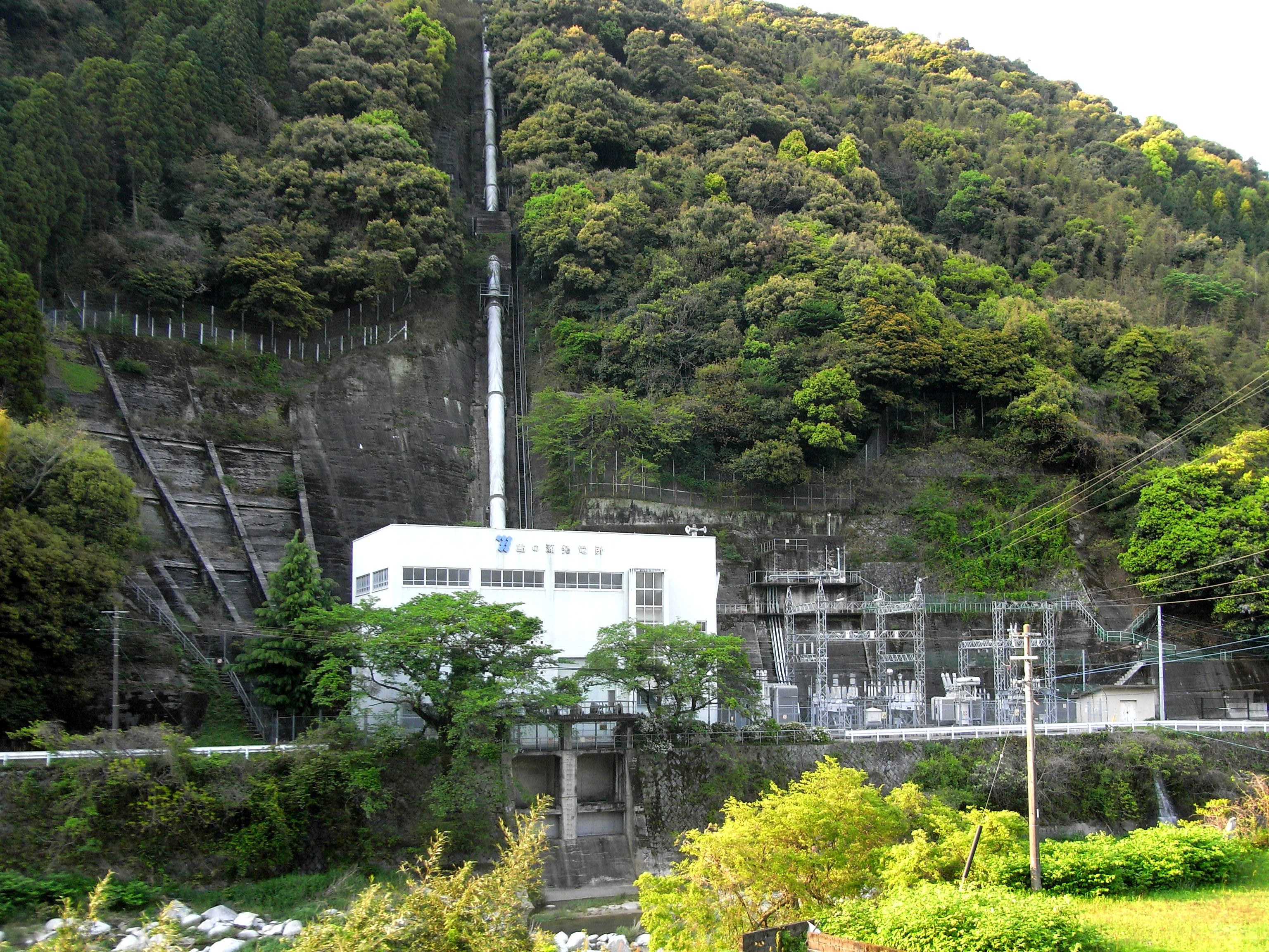 Ayunose power station(Saga pref./Kasegawa river/Kyushu Power Electric company)